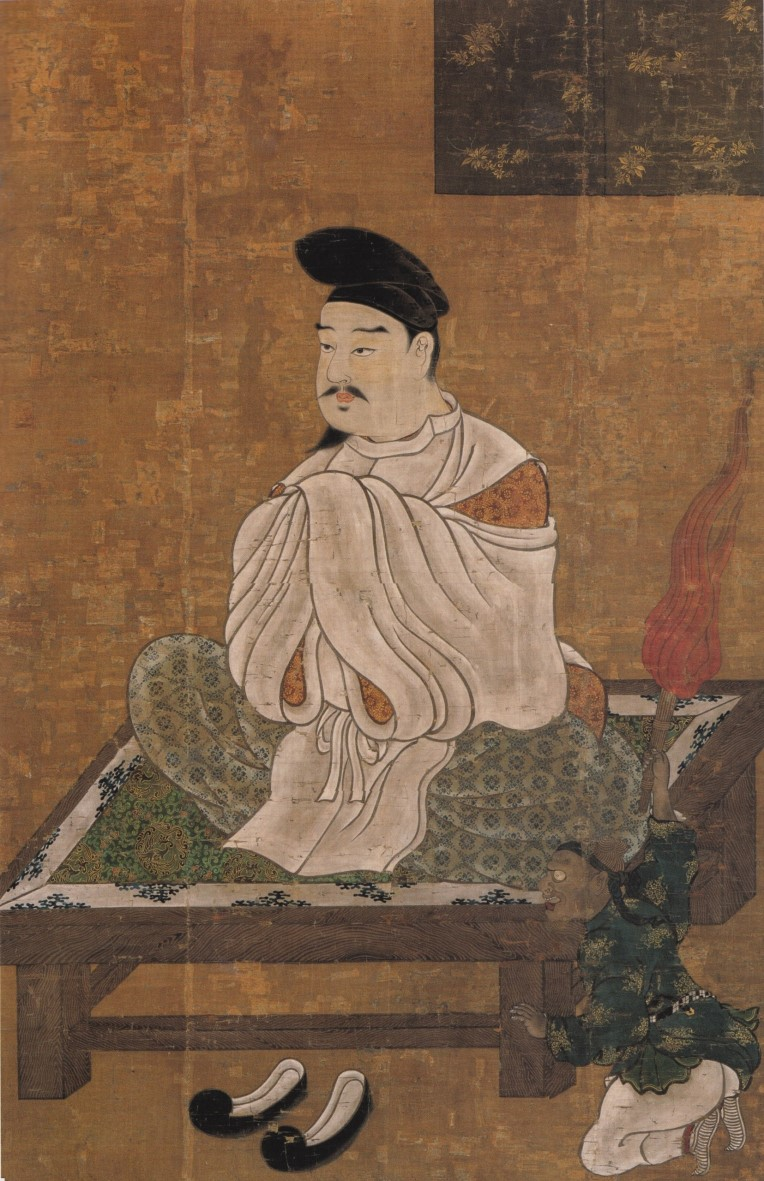 Abe Seimei